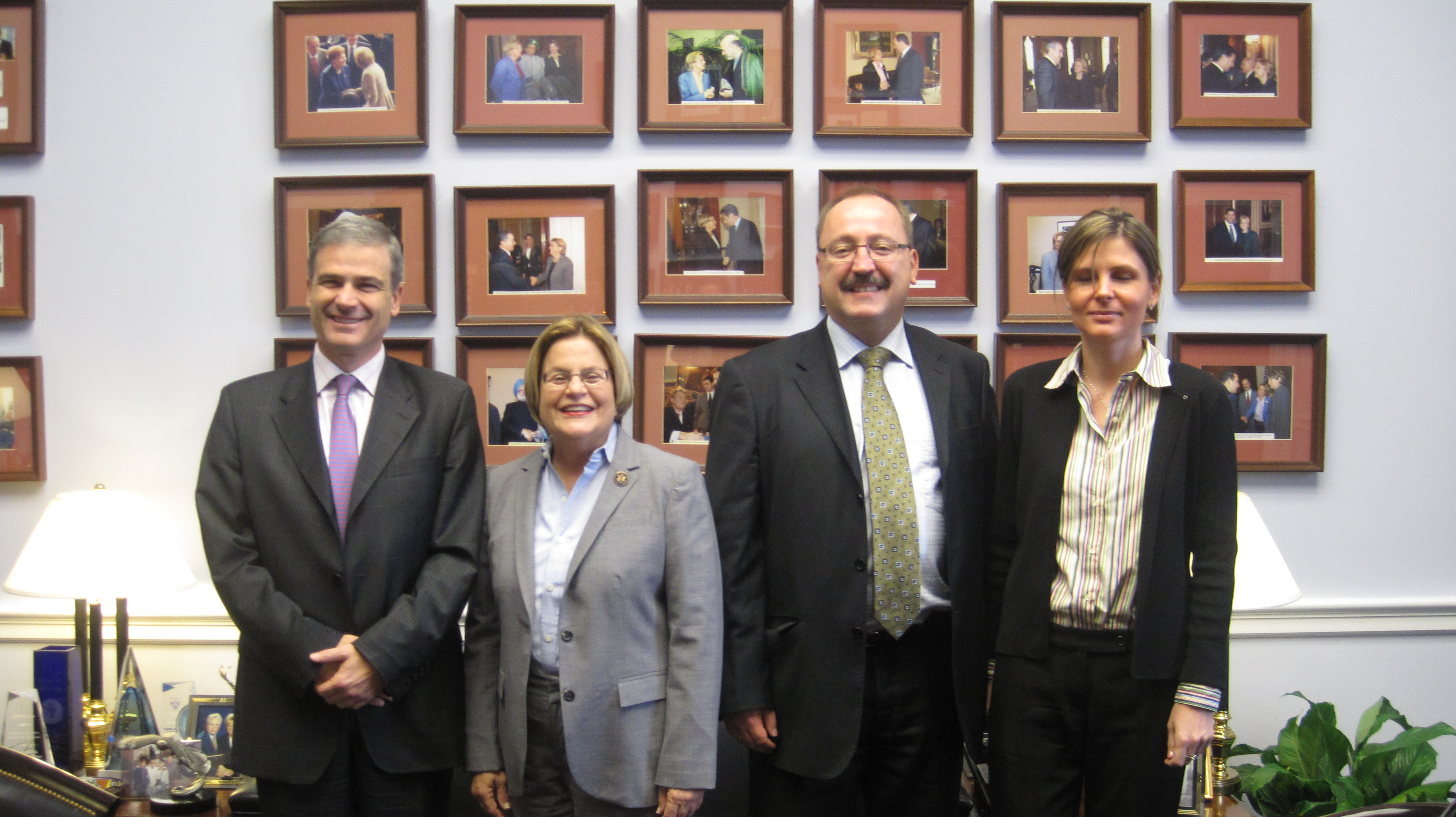 Ros-Lehtinen meets with His Excellency Bela Szombati, the Ambassador of Hungary to the United (R), and The Honorable Zsolt Nemeth, Chairman of the Hungarian Foreign Affairs Committee.